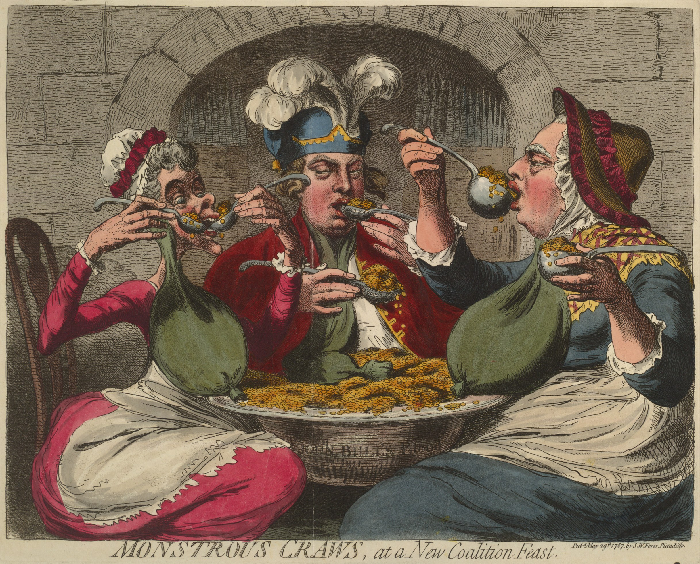 Monstrous craws, at a new coalition feast. Cartoon shows King George, dressed as an old woman, the Queen, and the Prince of Wales seated around a basin perched on the laps of the King and Queen; they eagerly spoon the contents, representing gold coins, into their mouths. Pouches hanging from their necks like goitres are full, except for that of the Prince of Wales, whose is empty. The gate to the treasury, in the background, is open. 1 print : etching with aquatint, color. [London] : Pubd. by S. W. Fores, 1787 May 29th.